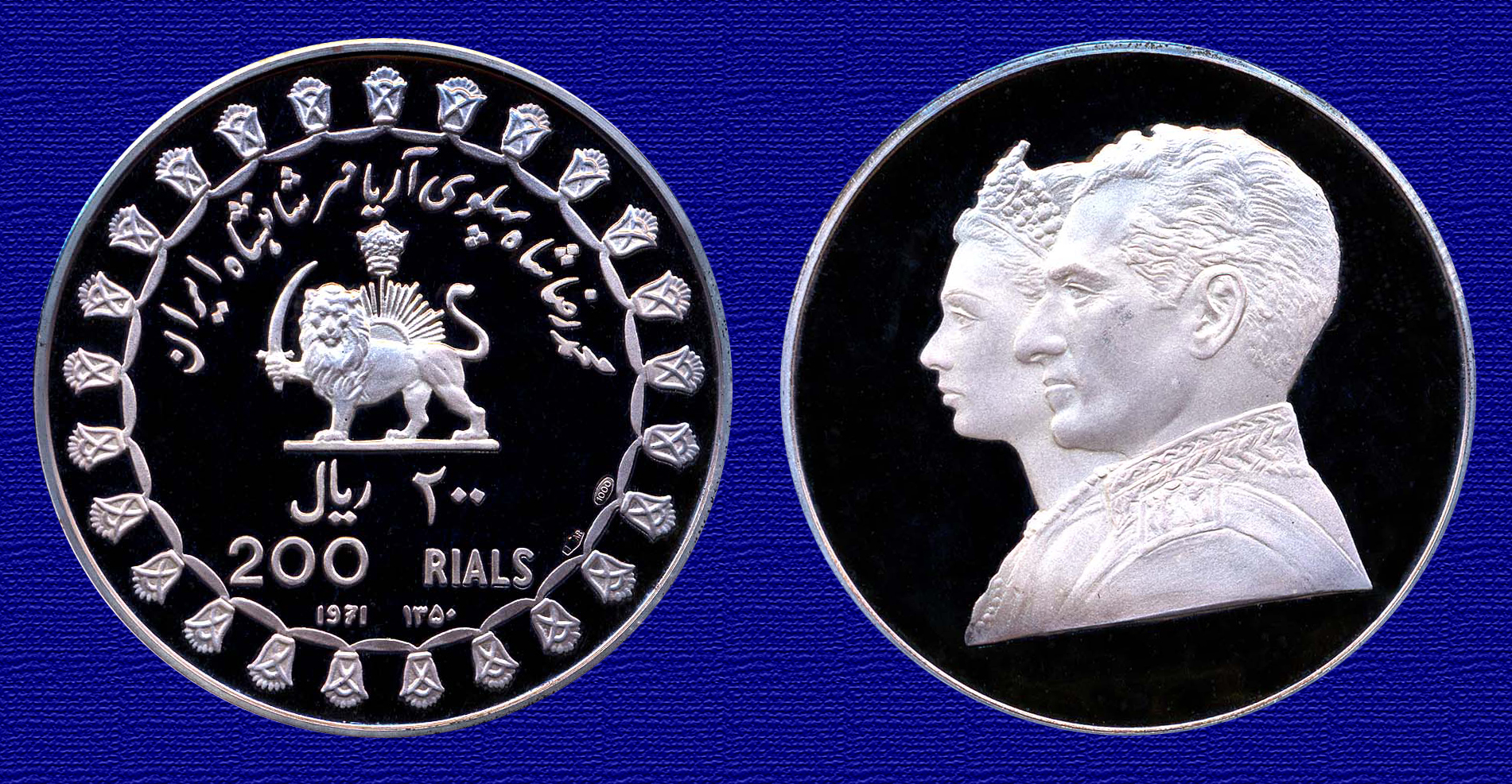 Commemorative silver coin of the 2500th anniversary of establishment of the Persian empire, depicting busts of Mohammad Reza Pahlavi and Farah Diba on the reverse and emblem of the Lion and sun on the obverse. This is a scan from my collection.